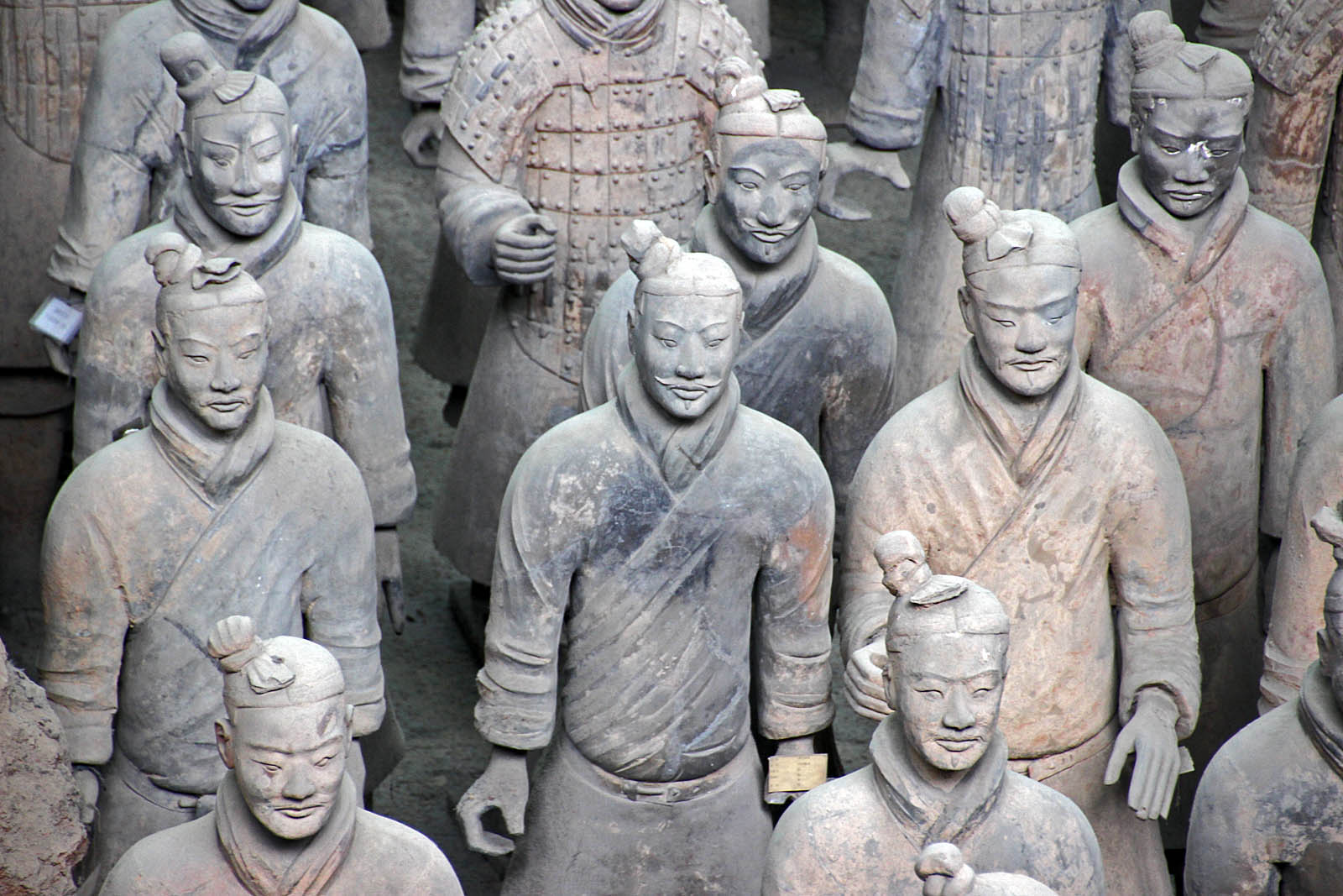 Terra cotta warriors of the Qin Shihuang's mausoleum at Xi'an.